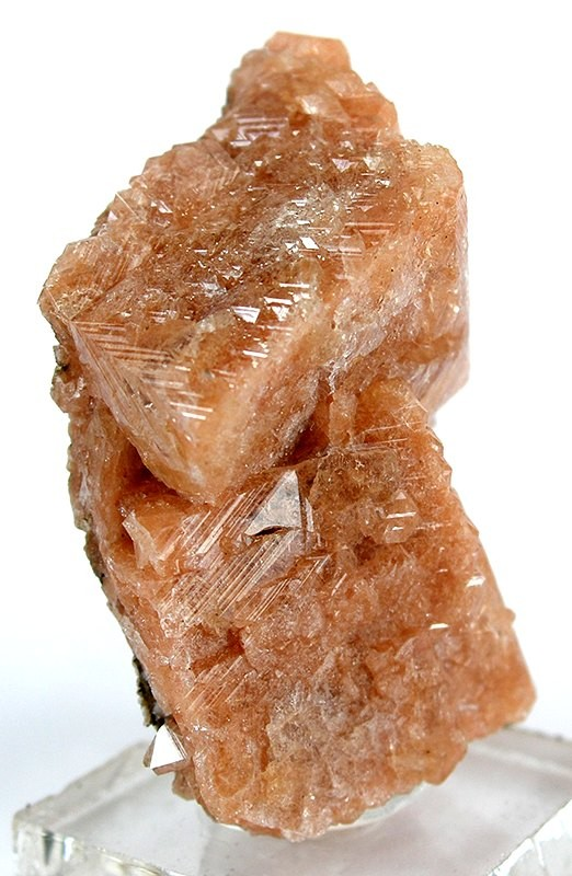 Gmelinite-Na, Chabazite-Ca Locality: Wasson Bluff, Parrsboro, Bay of Fundy, Cumberland County, Nova Scotia, Canada (Locality at ) Size: 4.1 x 2.8 x 1.9 cm. This is a dramatic cluster of large gmelinites to about an inch, which have replaced chabazite. The lustre is unusually good on this piece, almost glassy and so far better than on others I have seen in the past! This is new material collected recently from this classic old locality that is difficult to access, by my friend Rod Tyson (a semi-retired mineral dealer and well-known Canadian field collector!).